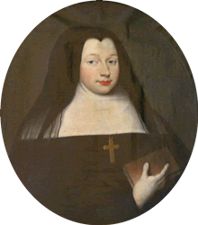 Françoise III de Foix, abbess of Notre Dame de Saintes from 1666 to 1686